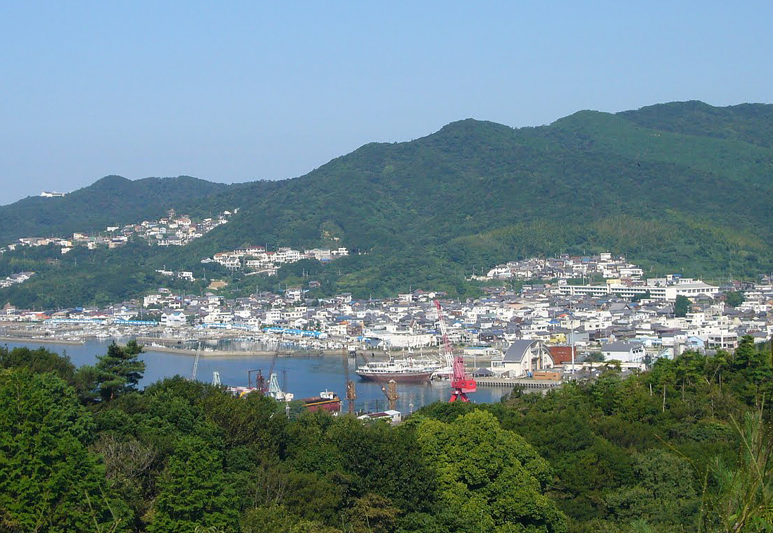 Fukura port in Awaji-shima(island), Japan.